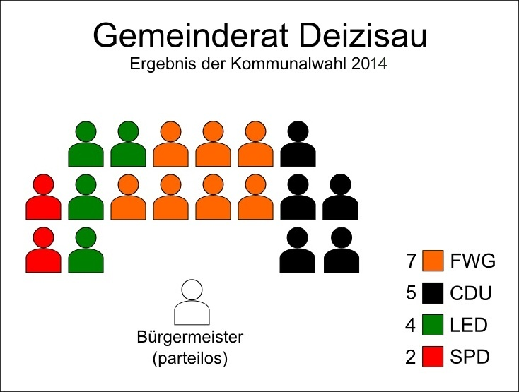 Number of seats in the council of the town Deizisau (Baden-Württemberg, Germany) after the municipal election 2014